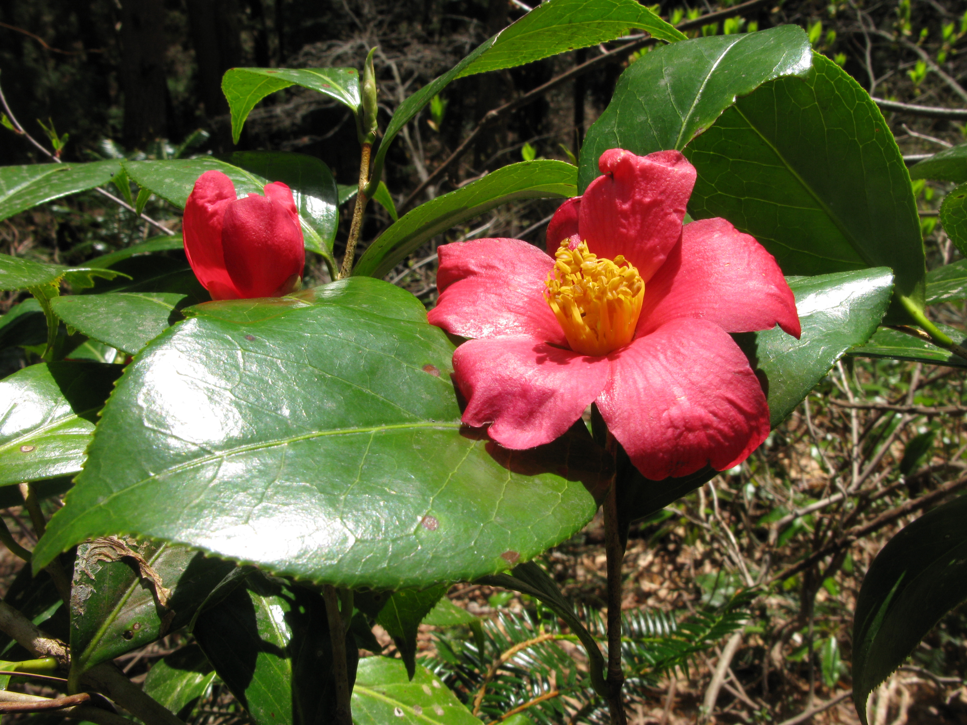 Camellia rusticana,Aizu area,Fukushima pref.,Japan